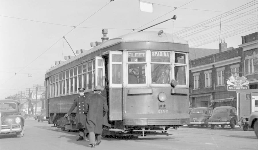 Streetcar on the former Spadina streetcar route. Original caption: "TORONTO – STREETCAR – SPADINA NEAR DUNDAS – SOUTHBOUND – NOTE UNIFORM – NOTE SHOPSOWITZ (INSTEAD OF SHOPSY’S) DELI SIGN ON RIGHT – 1943"